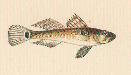 Broad-Finned Goby Gobius biocellatus Subject: Gobiidae Tag: Fish